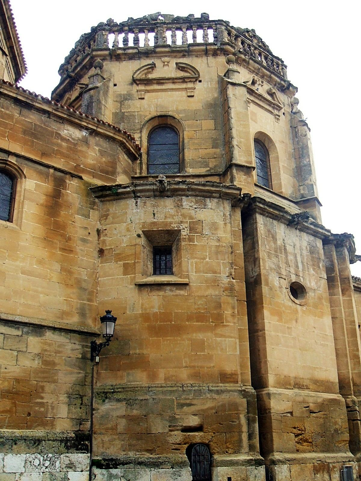 Iglesia parroquial de Nuestra Señora de la Asunción, Labastida, Álava, Euskadi, España.